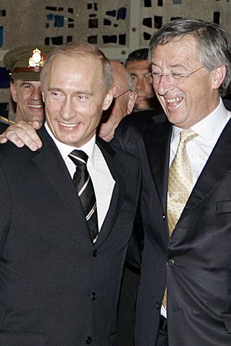 LUXEMBOURG. With Prime Minister of Luxembourg Jean-Claude Juncker.